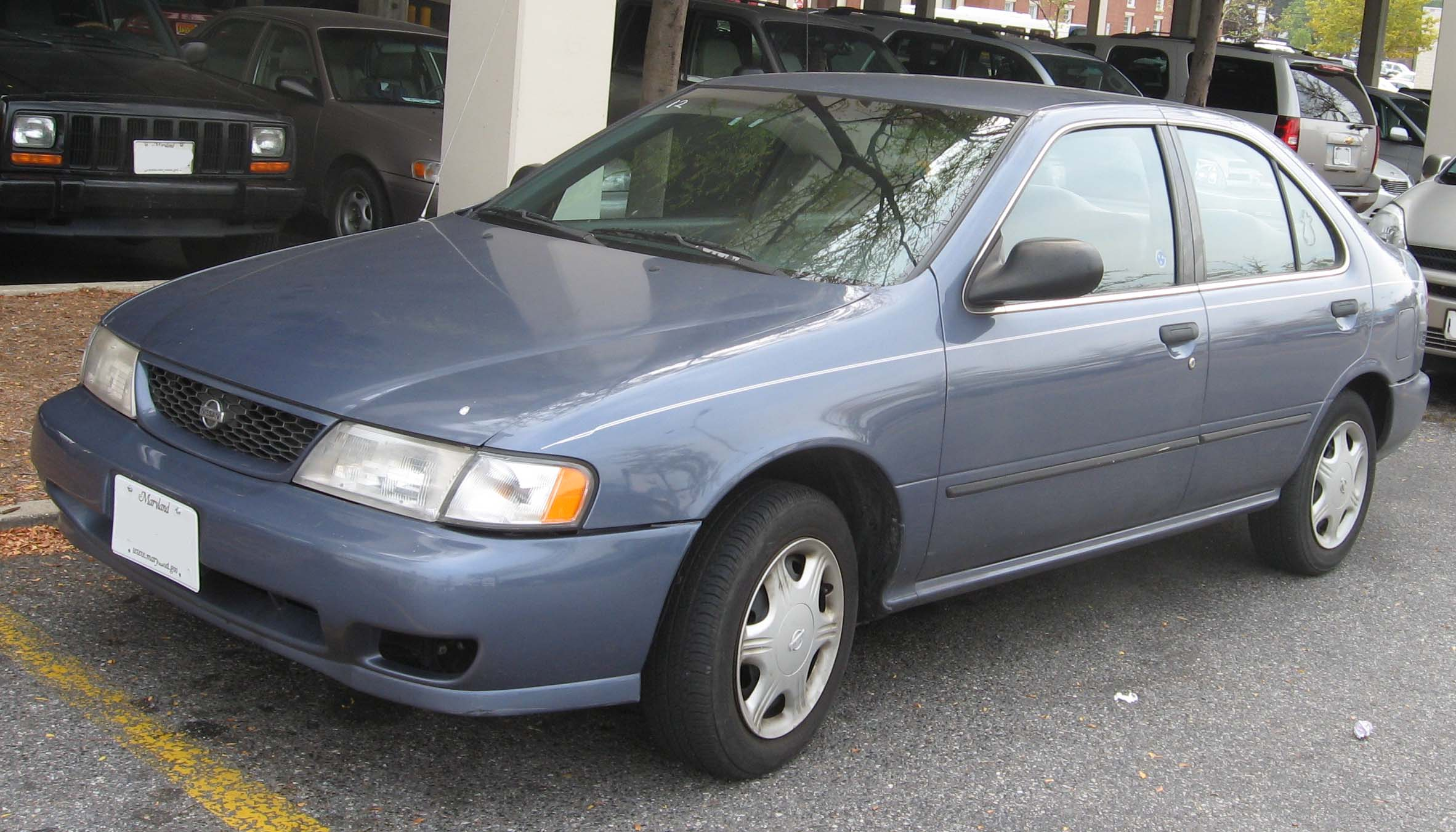 1998 Nissan Sentra photographed in Greenbelt, Maryland, USA.